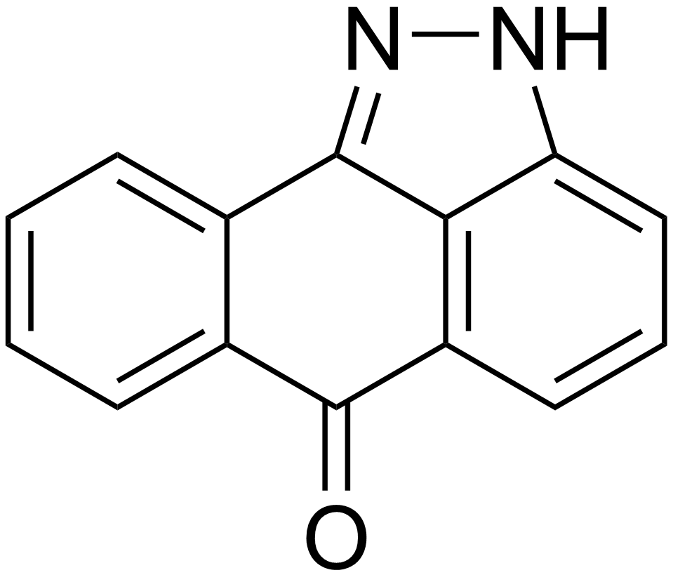 Chemical structure of 1,9-Pyrazoloanthrone (Pyrazolanthrone; Pyrazoleanthrone; SP 600125; Anthra[1,9-cd]pyrazol-6(2H)-one